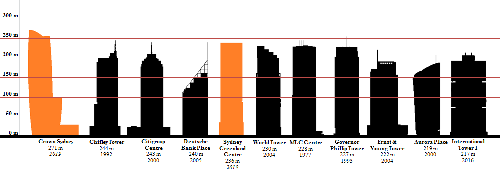 Tallest buildings in Sydney, above 200 m. Buildings in orange are under construction